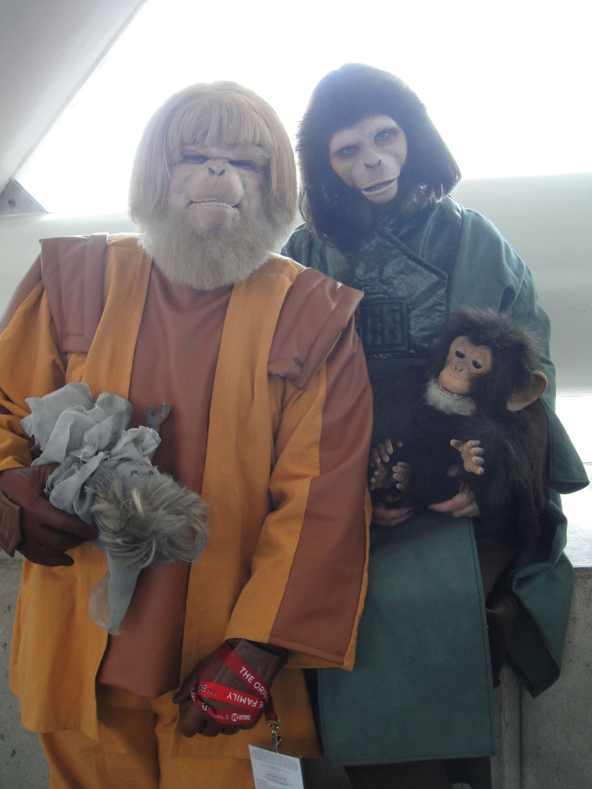 WonderCon 2011 - Planet of the Apes costumes (Dr Zaius and Dr Zira)